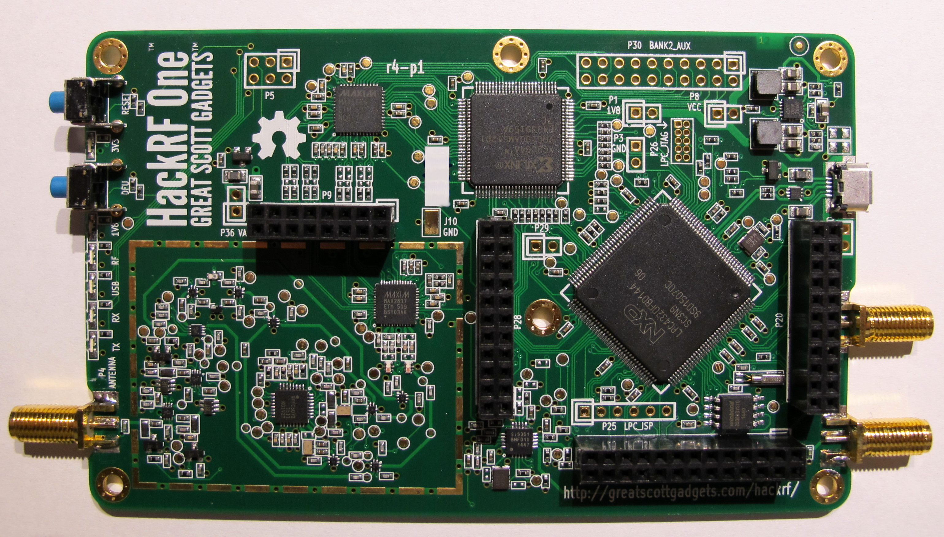 Software Defined Radio HackRF one. Printed Circuit Board (PCB)